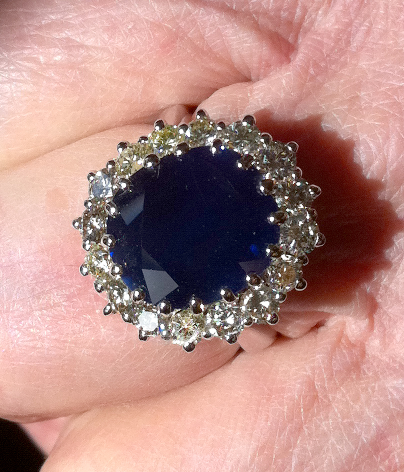 Does this look familiar? Nice Sapphire ring, large 7.7ct size surrounded by 16 beautiful fancy diamonds all set into 14ct white gold. Set size = 19.65mm x 17.82mm x 8.58mm. Ring size 58 / Q-R Further information or more images of individual pieces please contact us with image number: Ann Porteus Sidewalk Tribal Gallery 19-21 Castray Esplanade, Battery Point 7004 Hobart Tasmania Australia t: 613 6224 0331 ABN 99 900 255 141